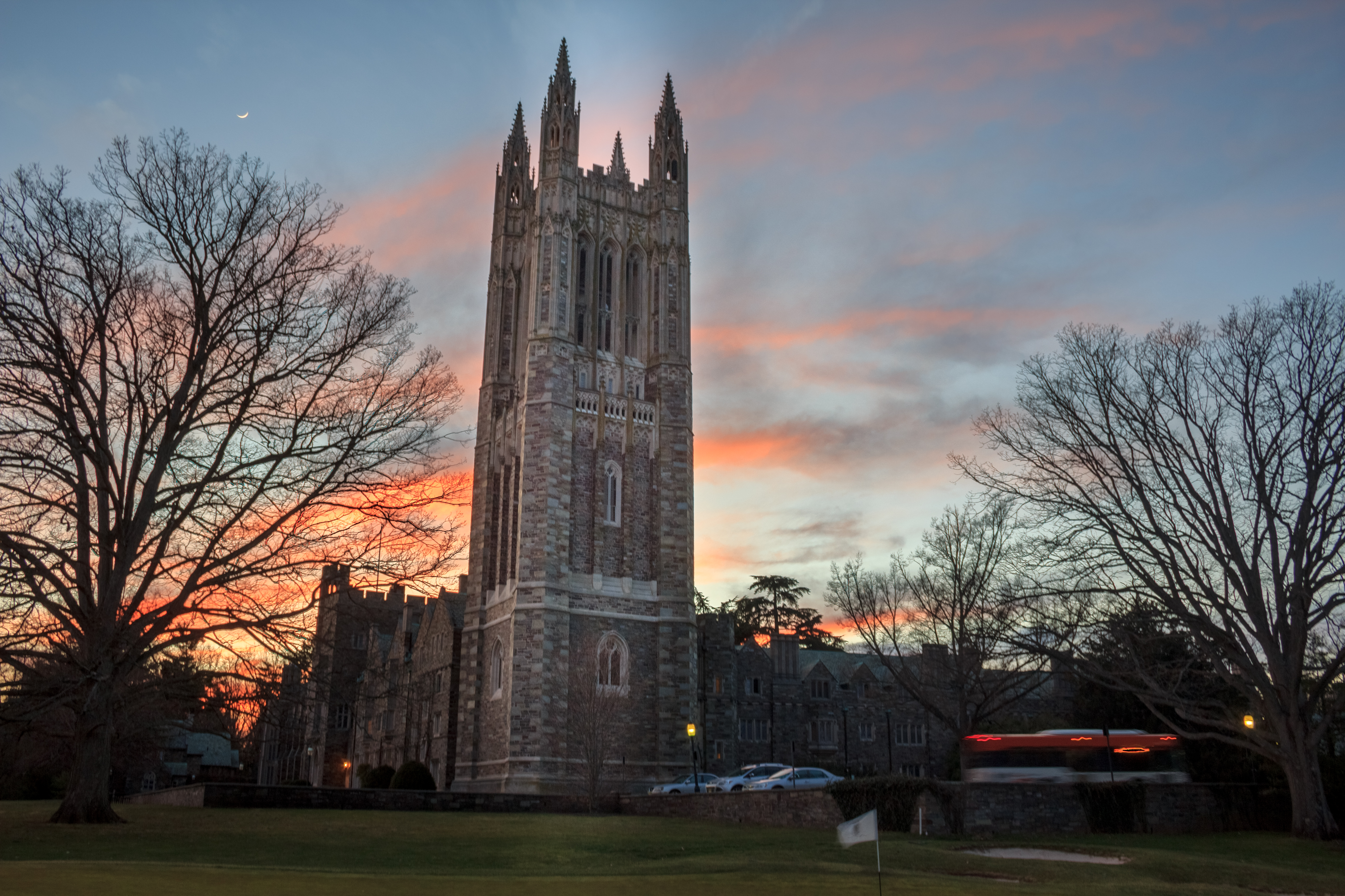 Captured this stunning sunset at the grad college.